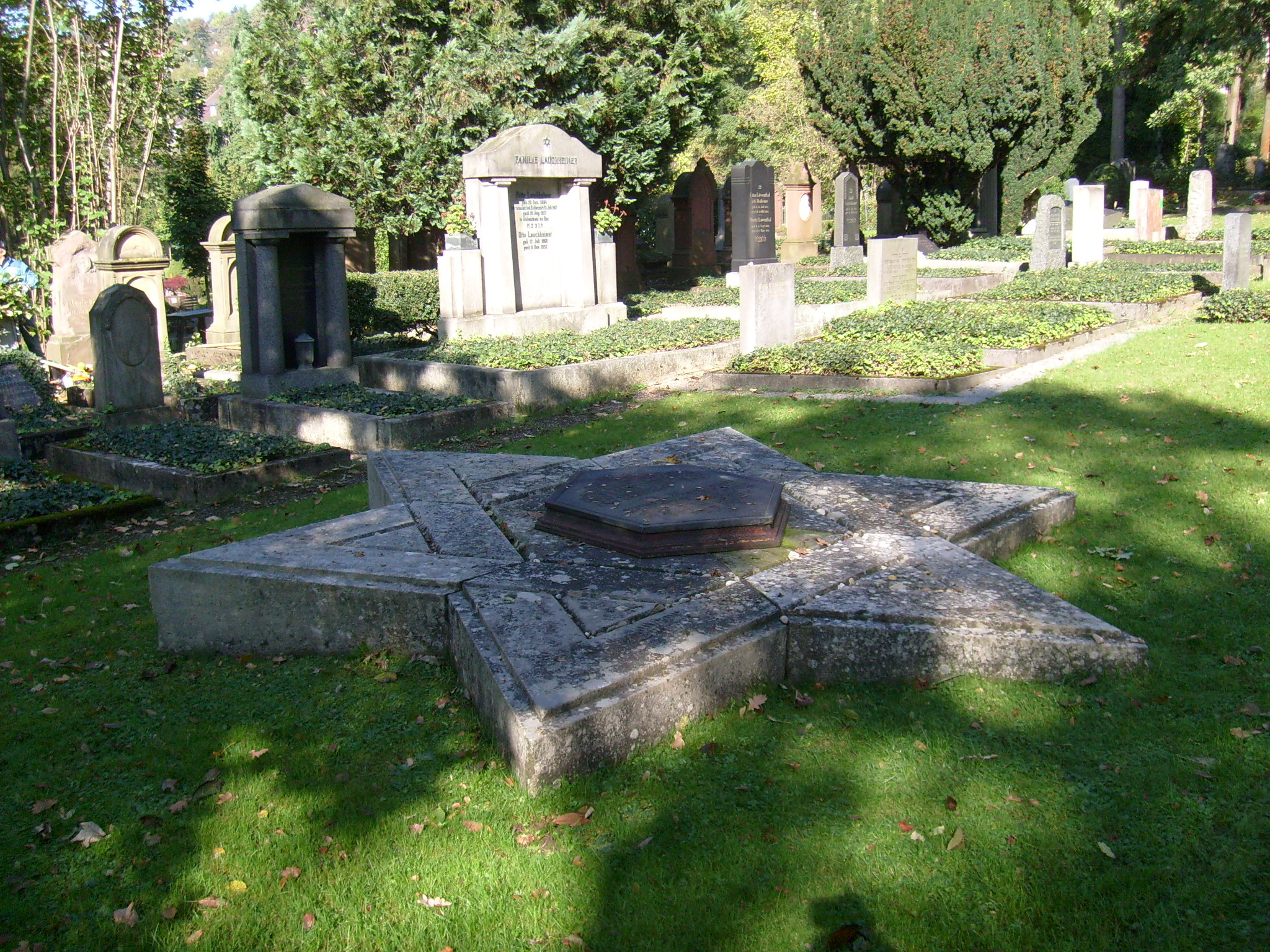 Jewish cemetery in Esslingen/Neckar ESL בית עלמין